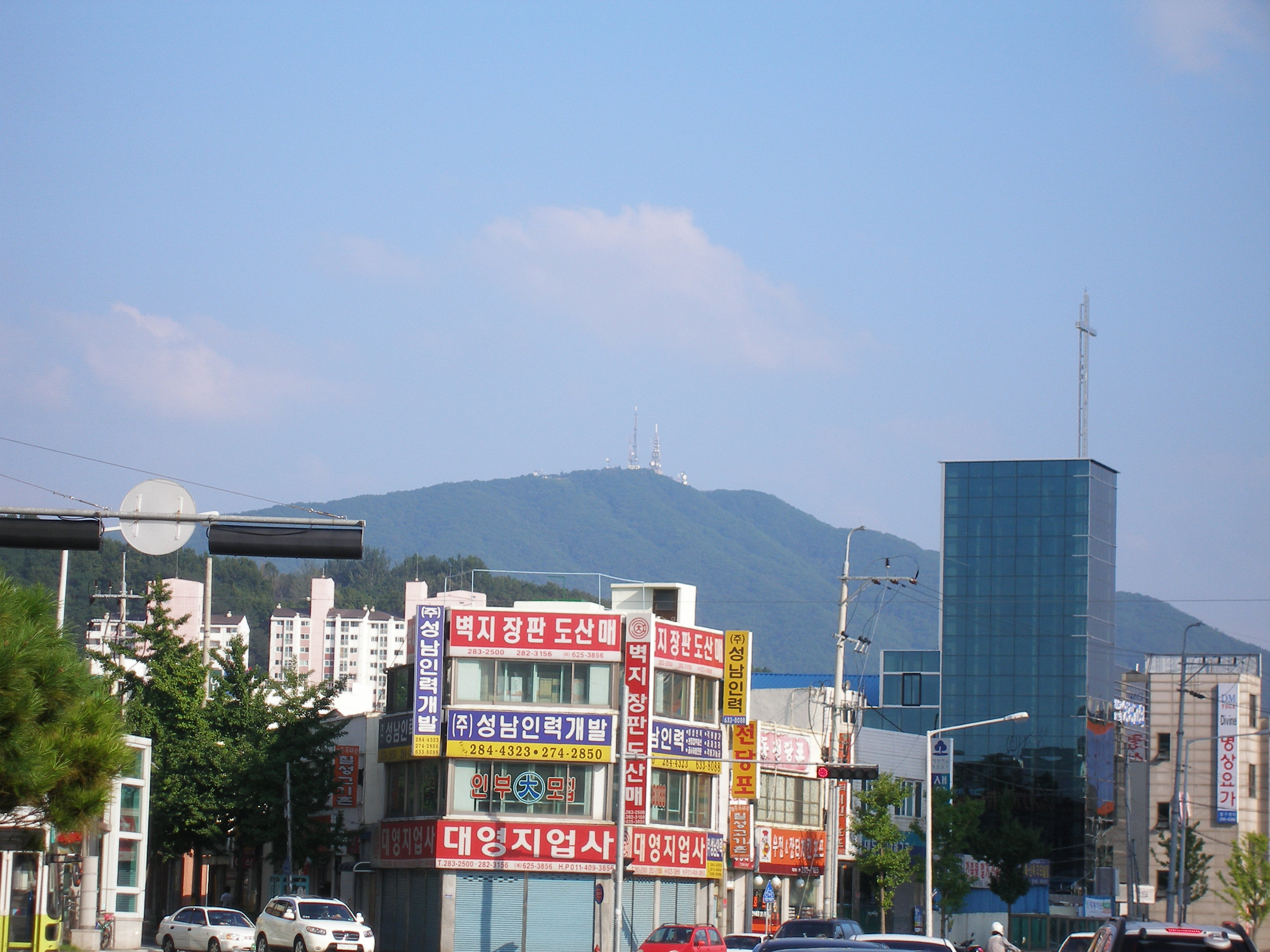 Sikjangsan, Daejeon: looking at Daedong station (대동역)